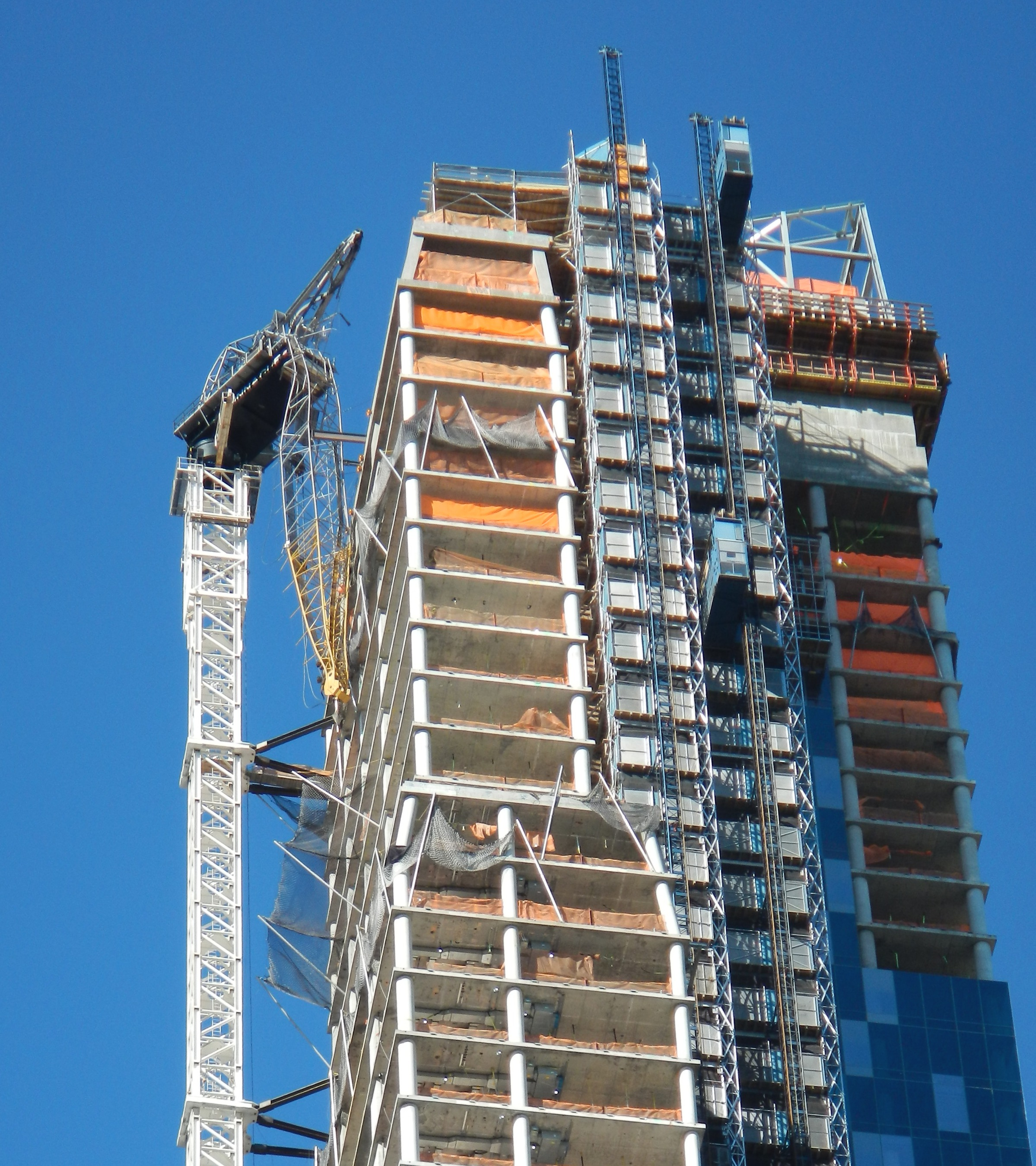 Looking northwest from 6th Avenue across 57th Street at crane now secured.